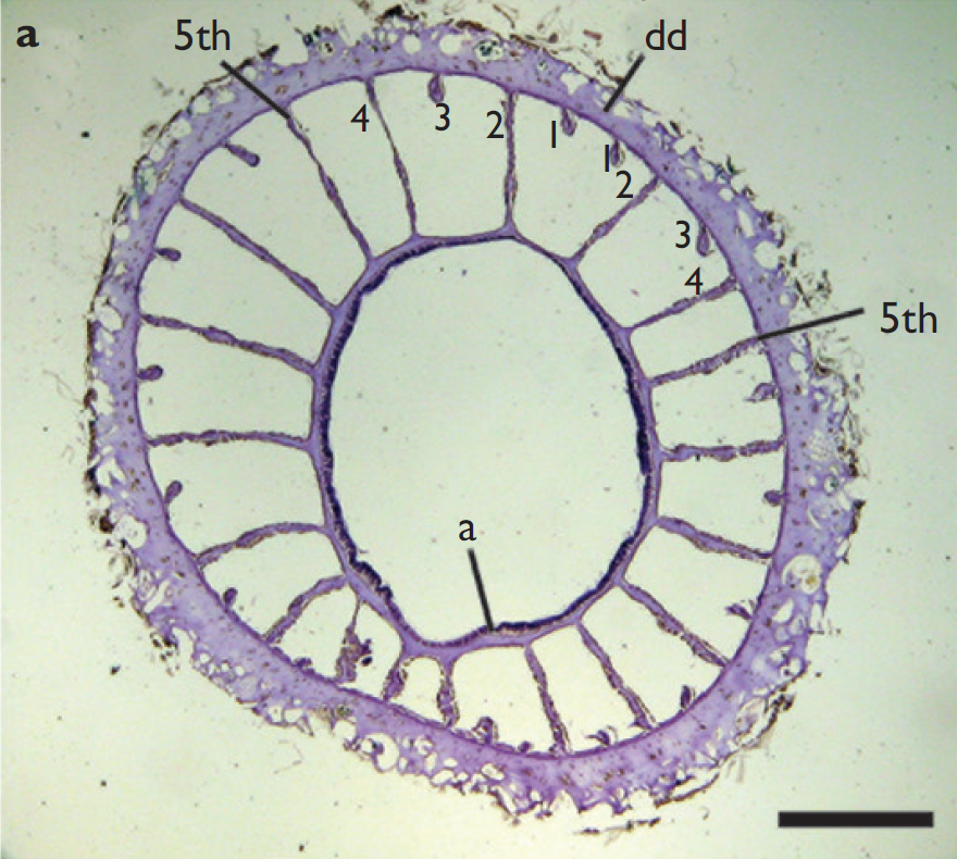 Cross section of Terrazoanthus onoi (Zoantharia: Hydrozoanthidae) at actinopharynx region showing preserved histological features. Note the fifth mesentery is complete (feature of suborder Macrocnemina). Scale bar – 500 μm. a – actinopharynx dd – dorsal directive